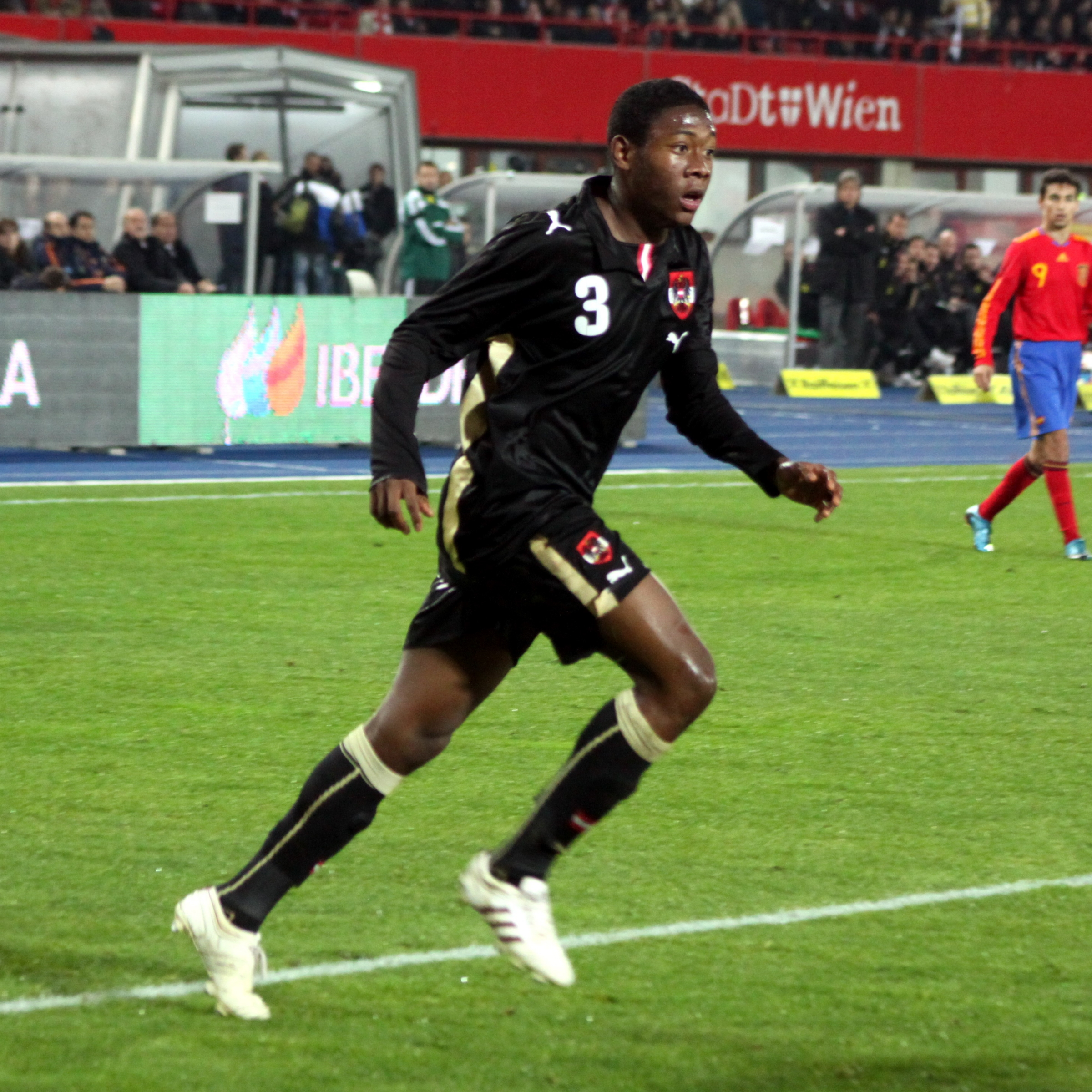 David Alaba (FC Bayern München) - Austria national football team